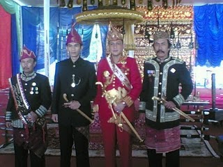 Dari kanan : sultan kepaksian buay belunguh, sultan kepaksian buay pernong, sultan kepaksian buay bejalan diway, serta sultan kepaksian nyerupa